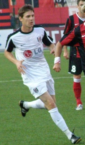 Zoltán Gera in action for Fulham F.C.